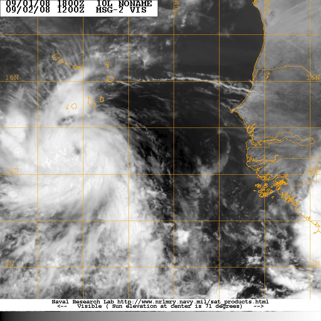 Tropical Storm Josephine on September 2, 2008 at 1200 UTC. The storm is showing an eye feature.